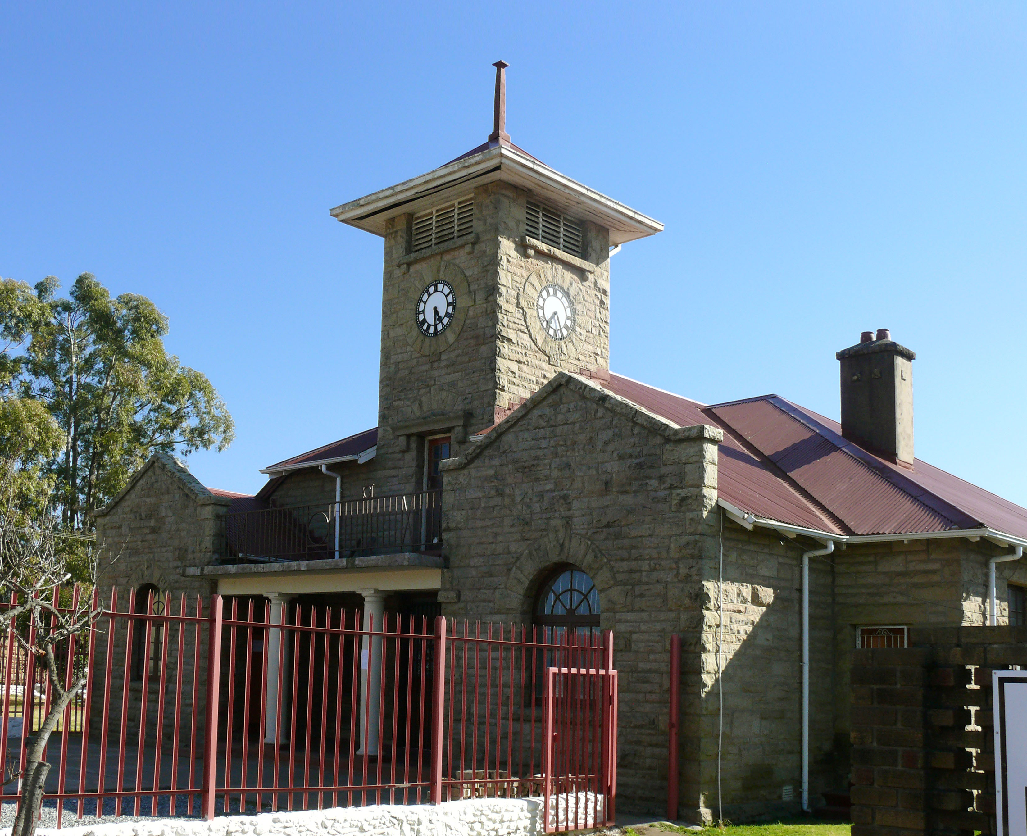 City hall in Elliot, Eastern Cape